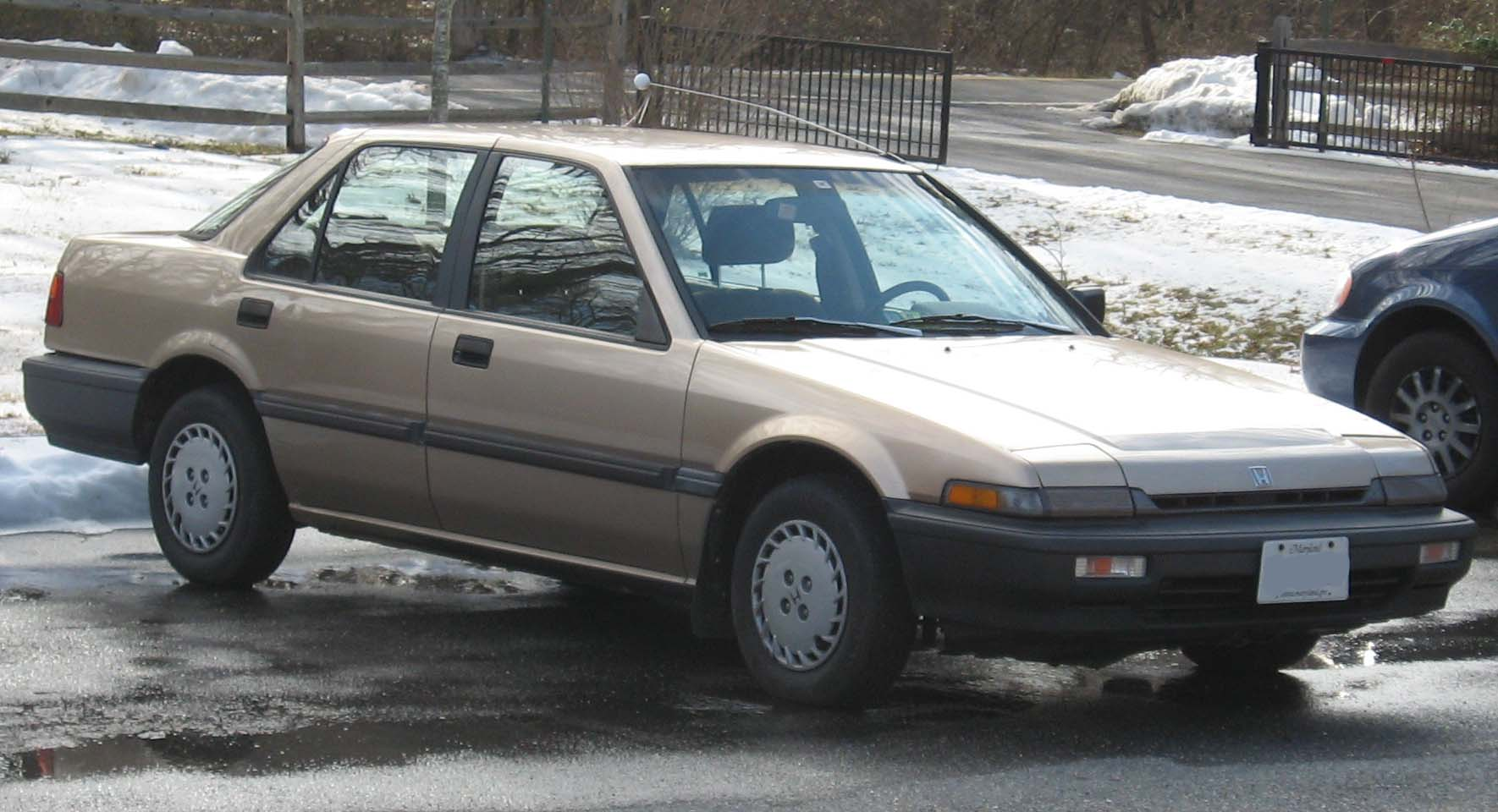 1988 Honda Accord photographed in USA.